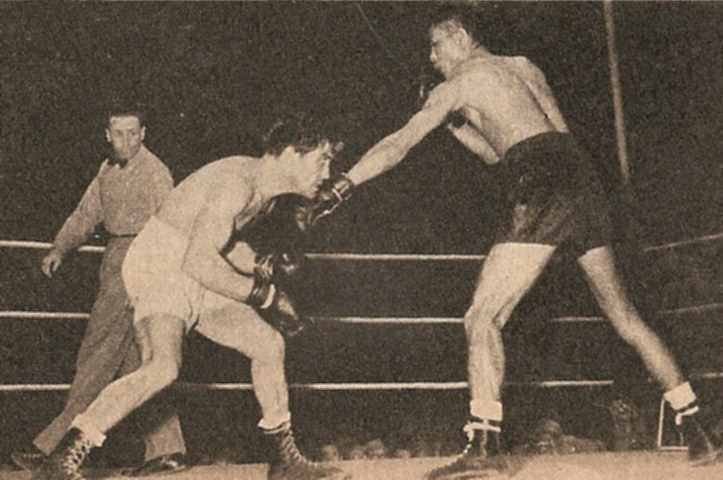 Pascual Perez (a. Pascualito), Argentine boxer. Flyweight Champion of the World (1954-1960), and Olympic Gold Medal at 1948 Summer Games (London).